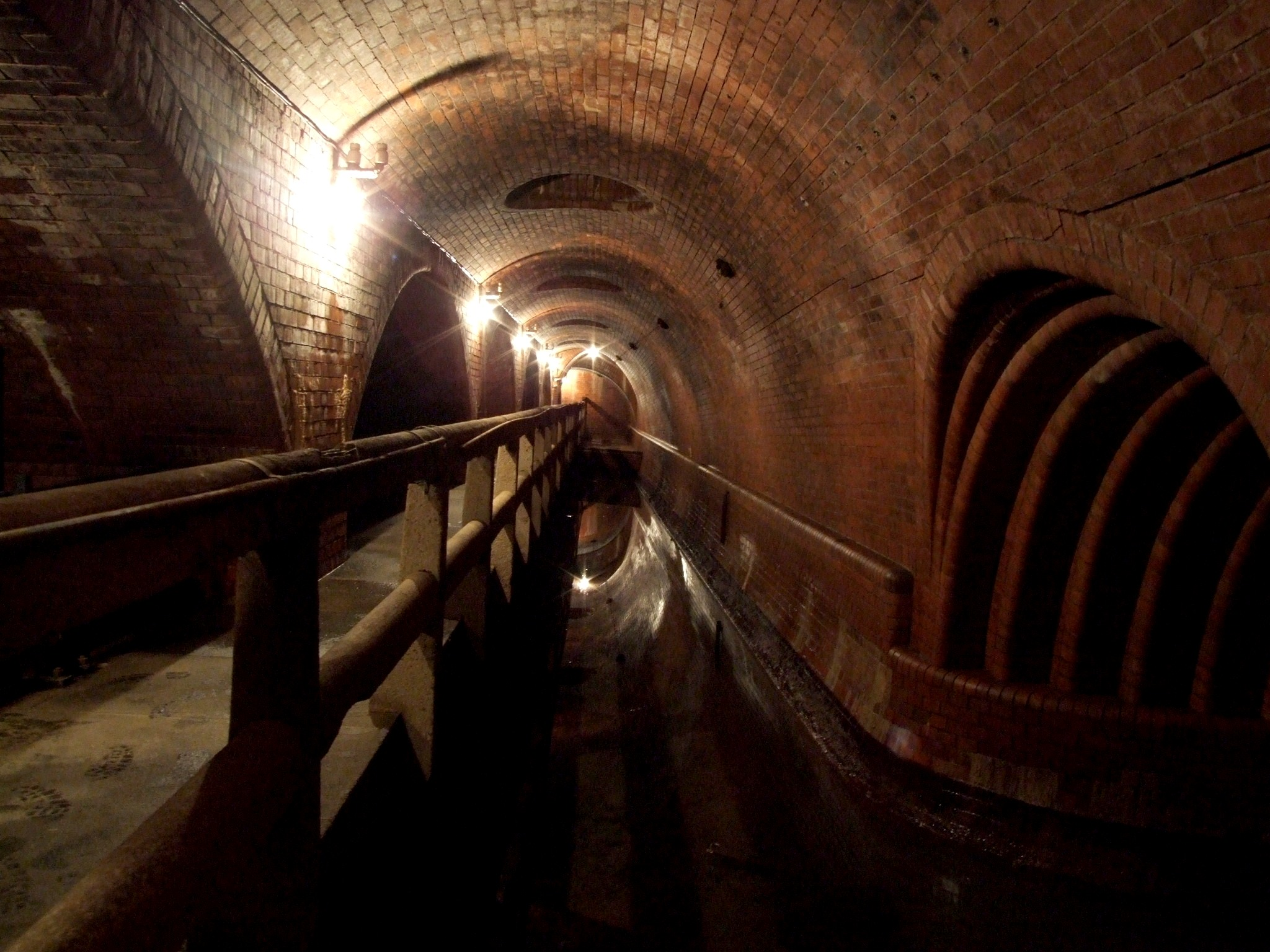 Underground sewage works in Prague constructed by William Heerlein Lindley in 1895 - 1906. Author: Mohylek 12:31, 14 September 2006 (UTC)